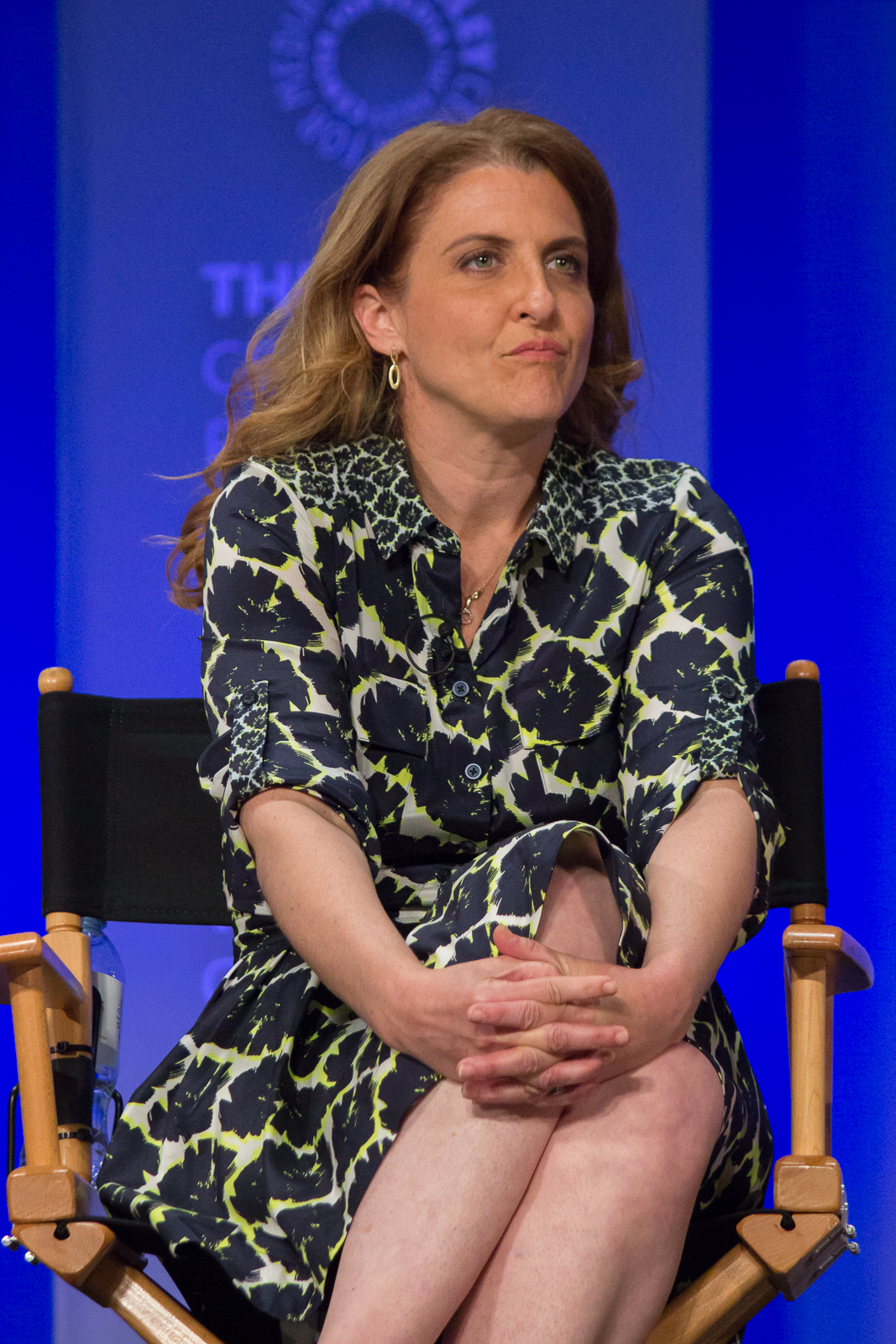 Creator Jennie Urman at the 2015 PaleyFest presentation for the TV show "Jane the Virgin"